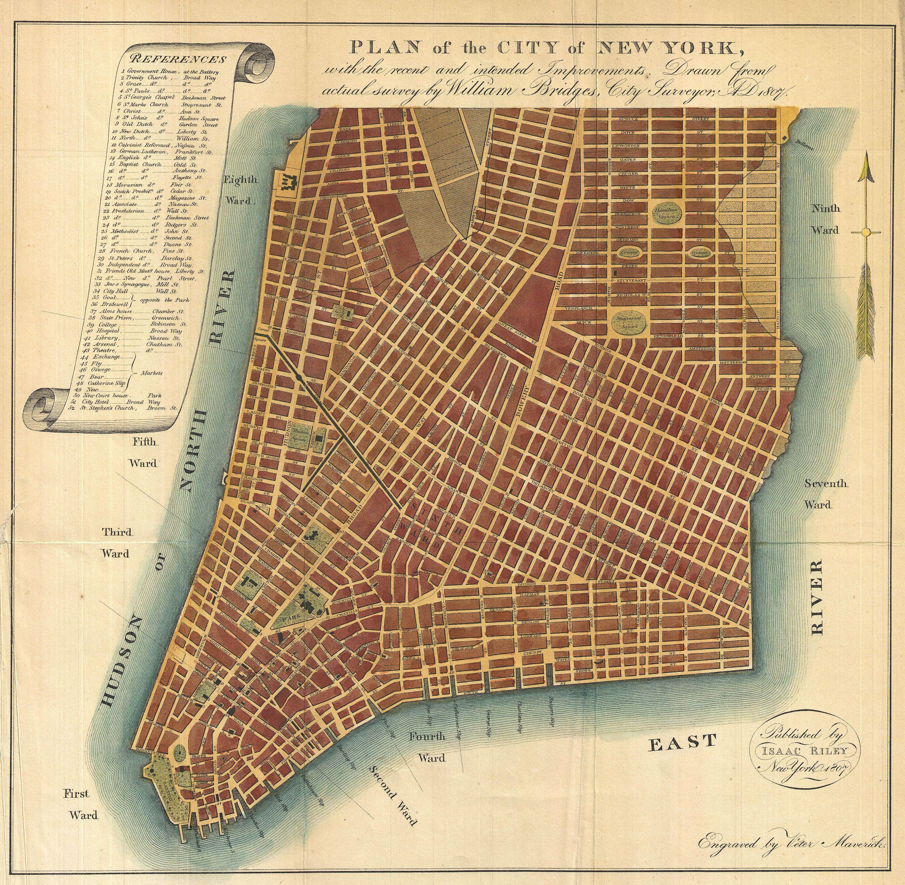 An interesting and unusual map, this is William Bridges’ 1807 revival or the failed 1801 Mangin-Goerck Plan. Those who know New York’s shoreline will pause at the perfect blocks and ridged angles of this plan no more accurate today than it was in 1801 when Mangin first presented it. Mangin, a talented French architect, and Goerck, an established New York Surveyor, were commissioned by the Common Council of New York to prepare a new regulatory map of the city. Though Goerck passed away before the plan could be completed, Mangin finished the plan on a grand scale, re-envisioning New York City in his own image. Mangin even added streets such as Mangin Street and Goerck Street which would have been submerged under the East River had they actually existed (as a side note another of Mangin’s Street’s, South Street, did eventually appear). The Mangin-Goerck plan went far beyond the Common Council’s dreams of an administrative plan and, due to its inclusion of “intended improvements”, new streets, and idealized block structure, enjoyed a short lifespan. It is curious then that in 1807 William Bridges, the talented City Surveyor who, in 1811, laid New York’s famous grid structure, resurrected and pirated the Mangin-Goerck Plan, attaching his own name to it. It was a private venture that led Bridges to piracy. He was commissioned by Dr. Samuel Mitchell to provide a map to illustrate Mitchell’s Picture of New York , a travel guide intended for foreign tourist. Perhaps Bridges chose the Mangin plan simply because, as a failed city plan, there were few obstacles to his use of it, but we do pity the hapless tourists who leapt into the east river in pursuit of Mangin Street. Though originally issued in 1807 for S. Mitchell’s Picture of New York , this example is a reissue prepared by John Hardy, Clerk of the Common Council, for the 1871 edition of the Manual of the Corporation of New York .